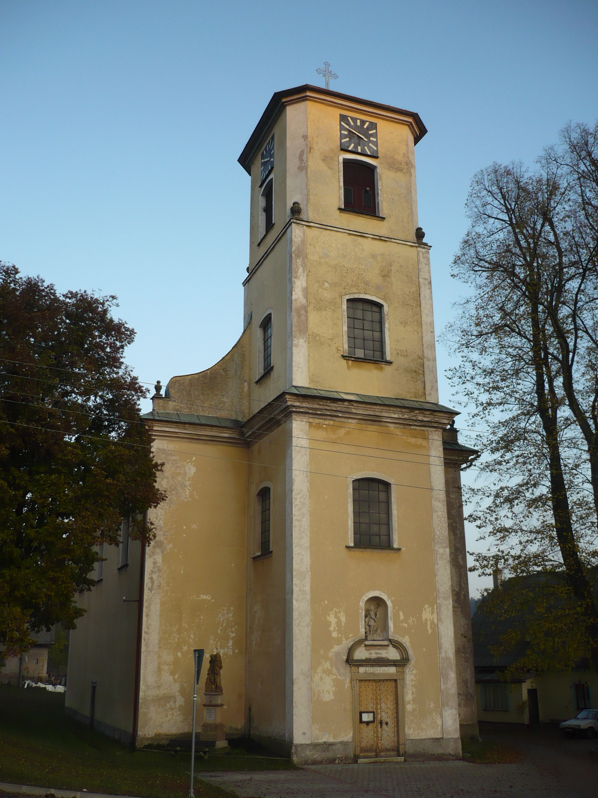 Mladkov - Church, Orlicke mountains, The Czech Republic